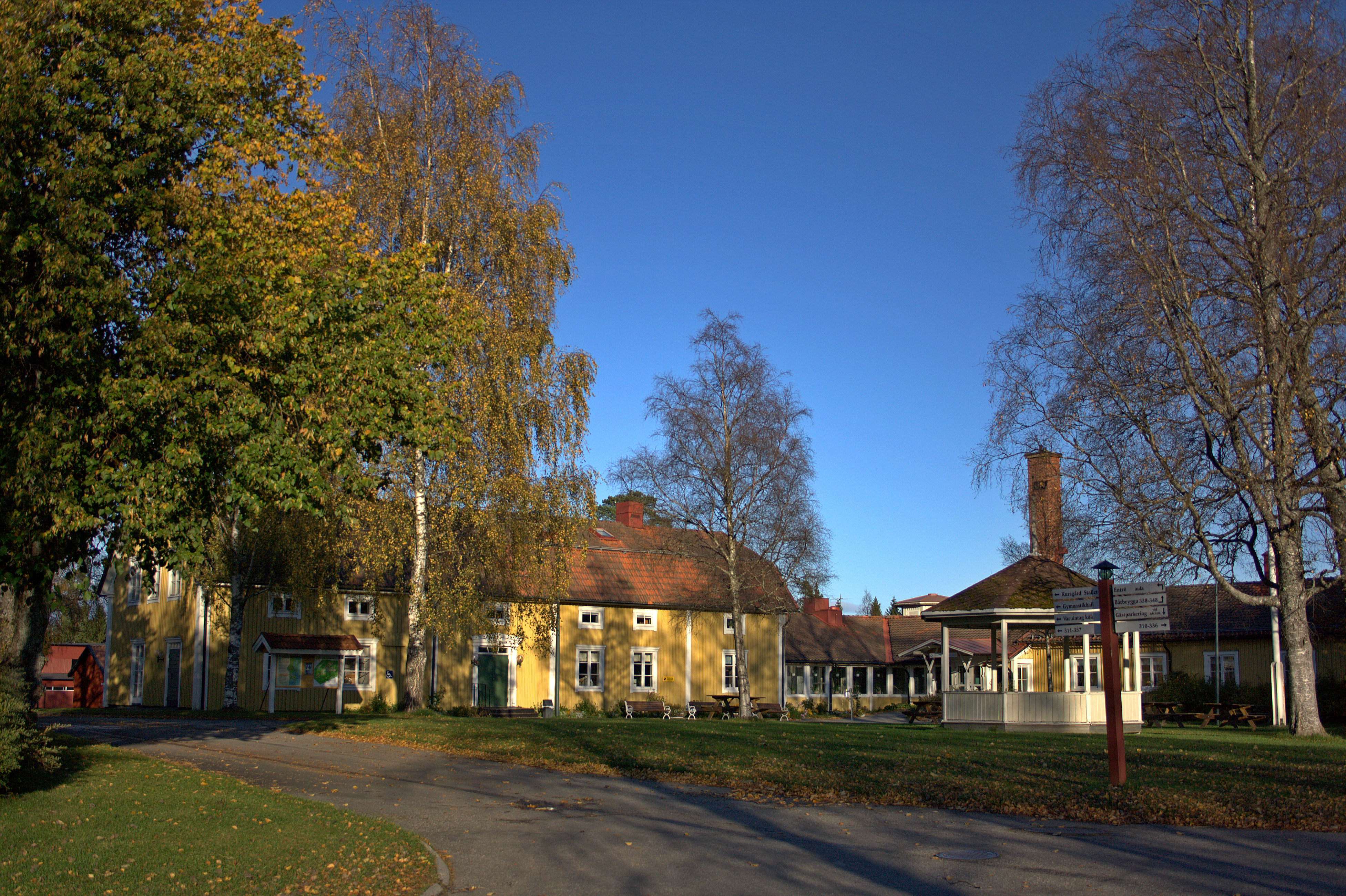 Strömbäck Folk high school